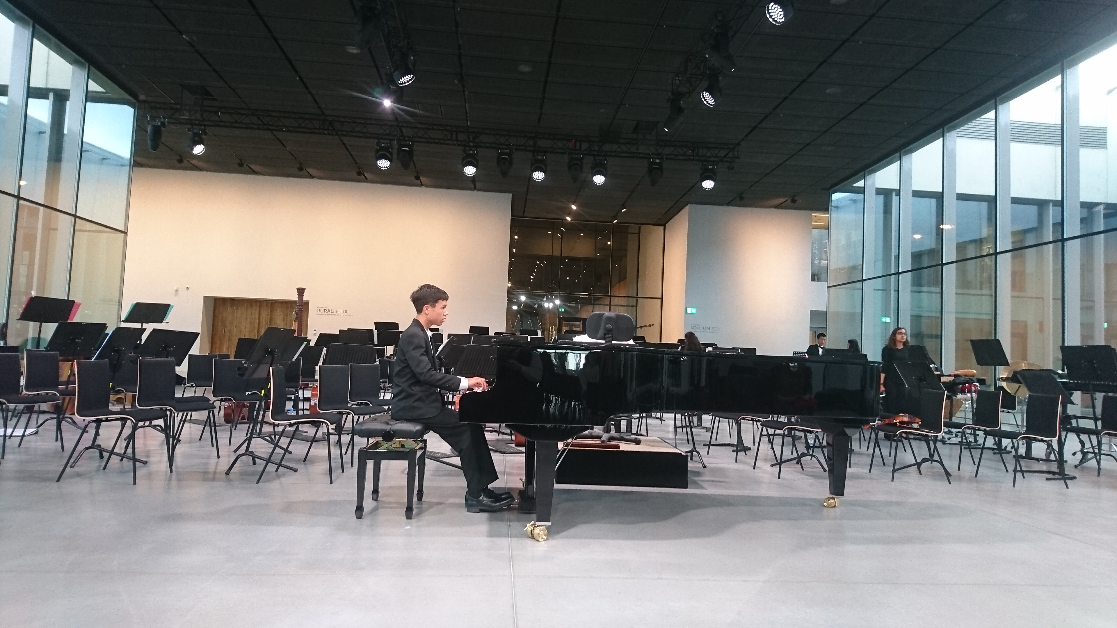 Parker van Ostrand from California Youth Symphony Orchestra performing in Estonian National Museum, June 22, 2018.